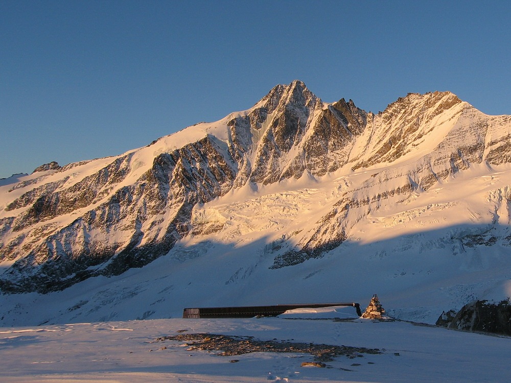 Grossglockner at sunrise